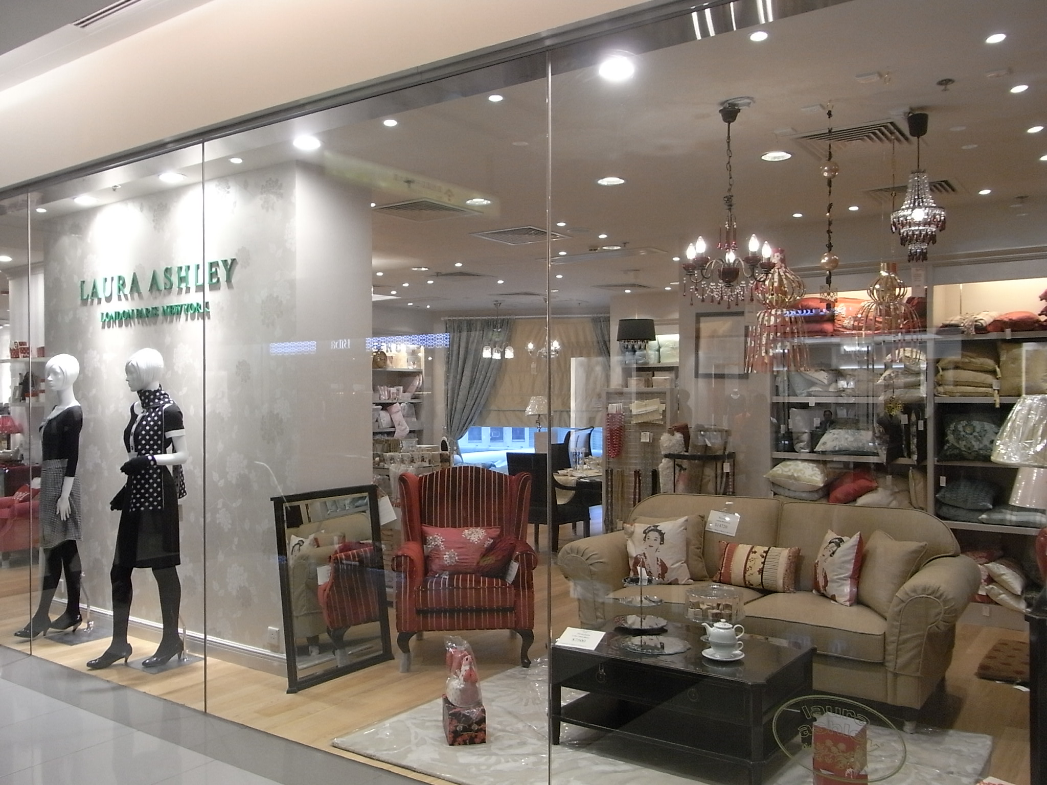 尖沙咀K11購物藝術館商場